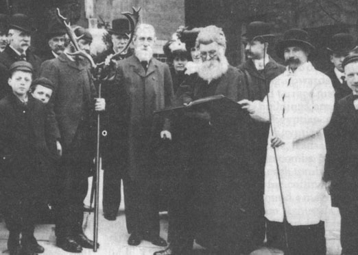 A Swearing on the Horns ceremony in 1906. Note the Master's wig, robe, and logbook. Transwiki details